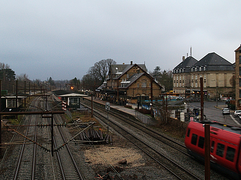 Copenhagen railway station Charlottenlund seen from nord.